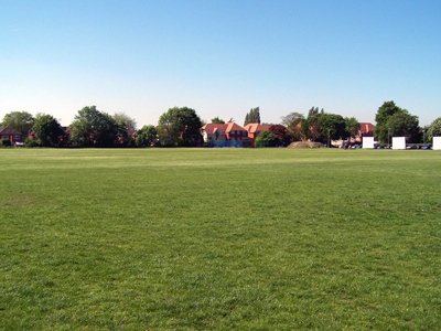 First XI cricket pitch at WHGS